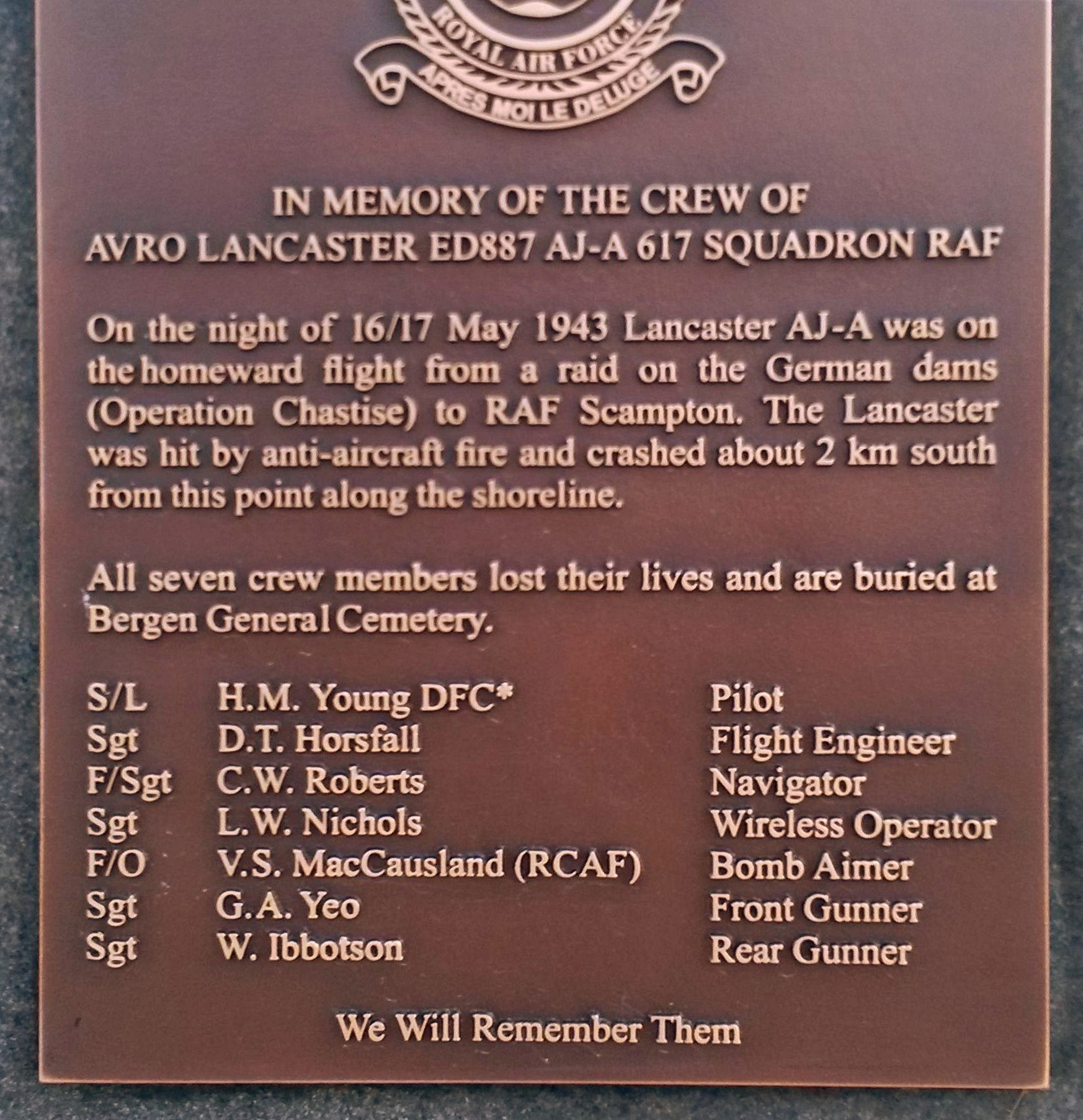 Memorial to the downed Lancaster bomber at Castricum aan Zee